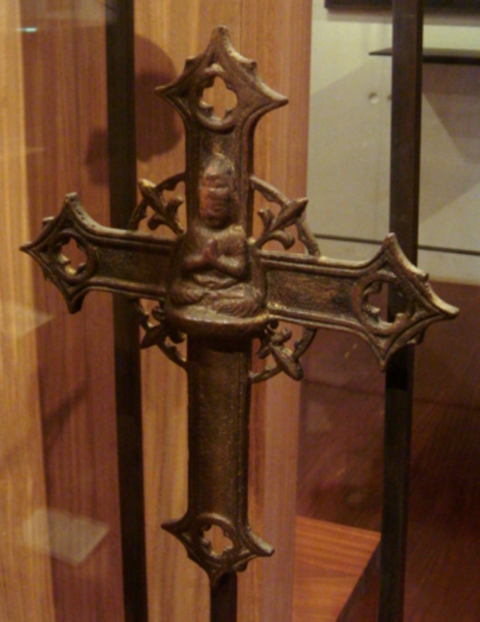 Said as Japanese Christian (Kirishitan) Crucifix, 17th century Japan. Photographed at Missions Etrangeres de Paris. But it is probably counterfeit. See also talk page.